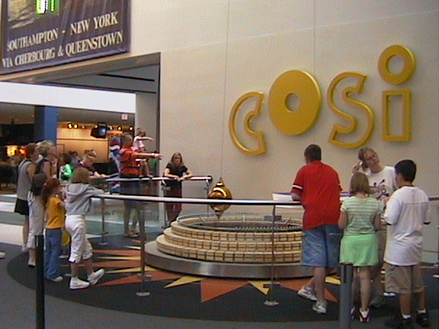 Front atrium at COSI Columbus, featuring a Foucault Pendulum. Digital photo taken by uploader July 15, 2005.